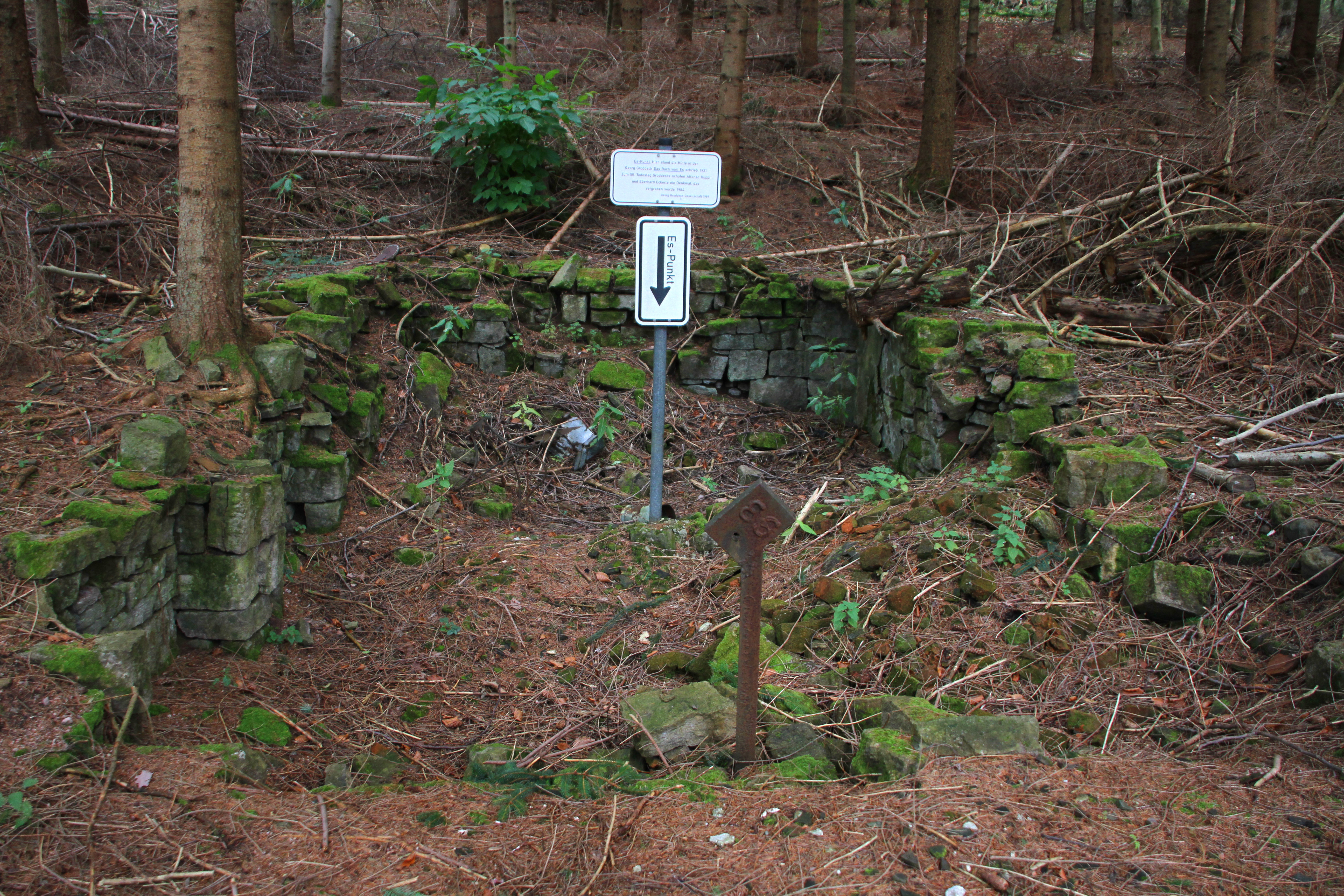 Es-Punkt Baden-Baden-Lichtental, Germany.